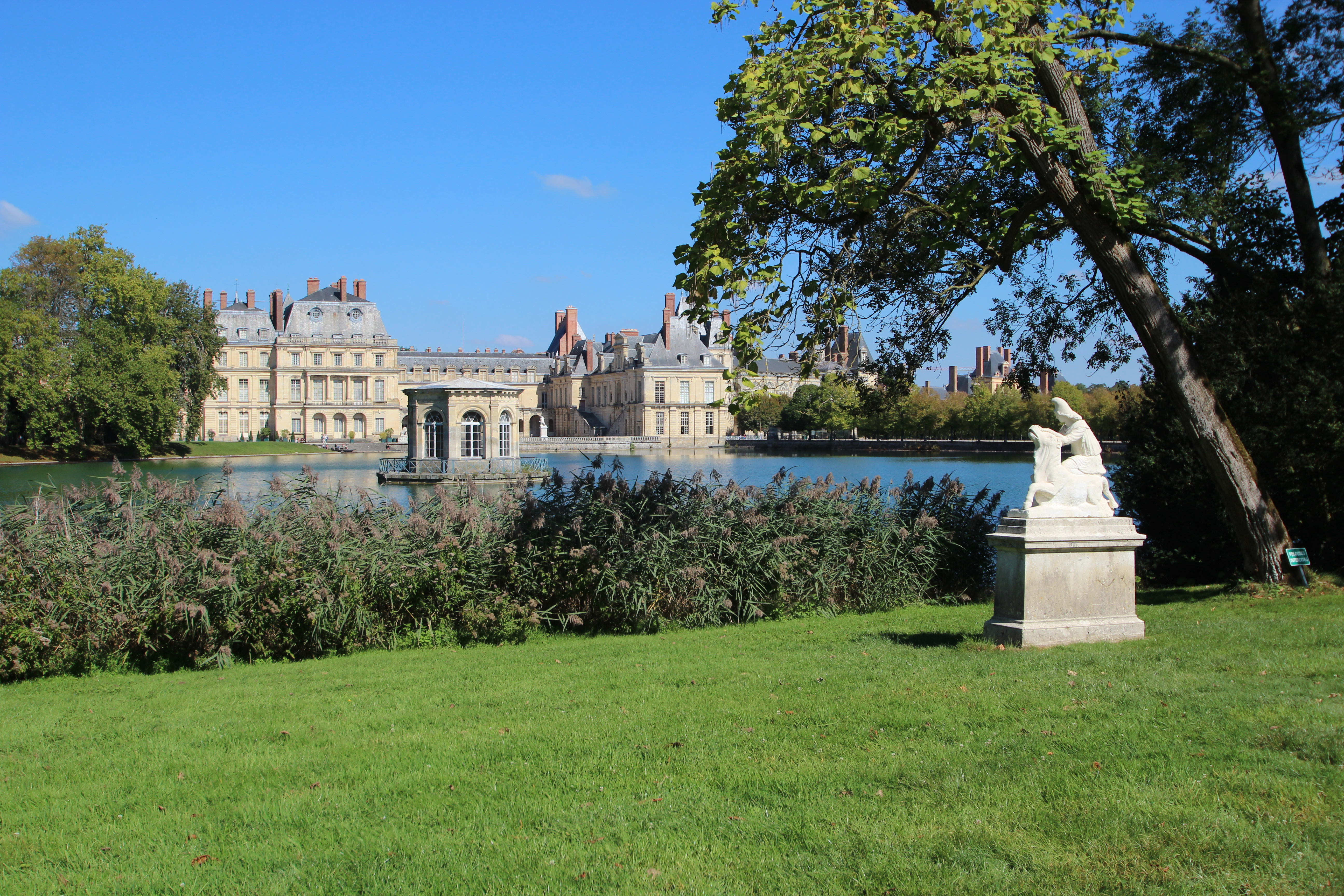 Park of the Fontainebleau Castle in Fontainebleau, France. . Object location48° 23′ 56.11″ N, 2° 41′ 55.28″ E